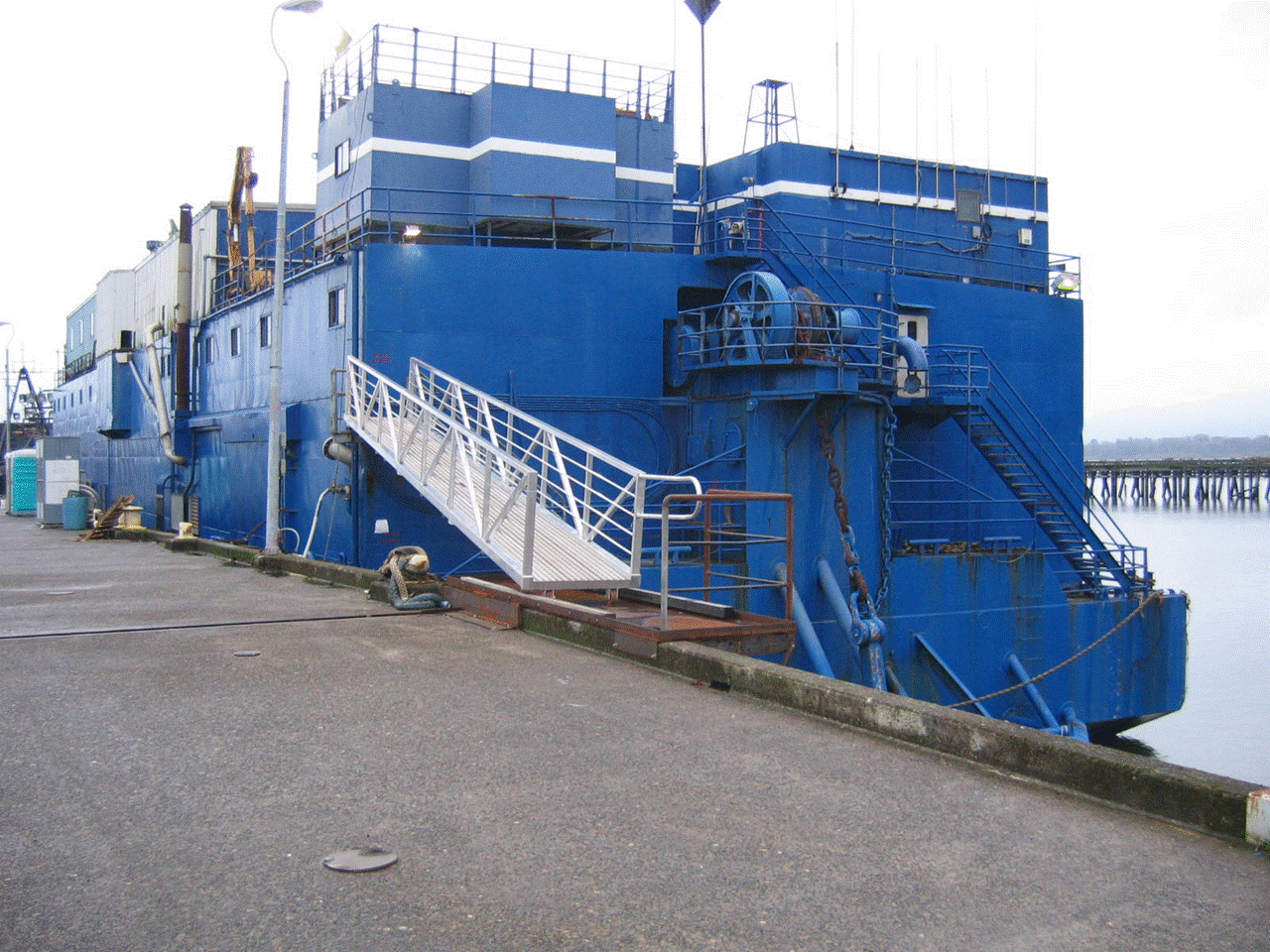 Fish processing barge Atlantis